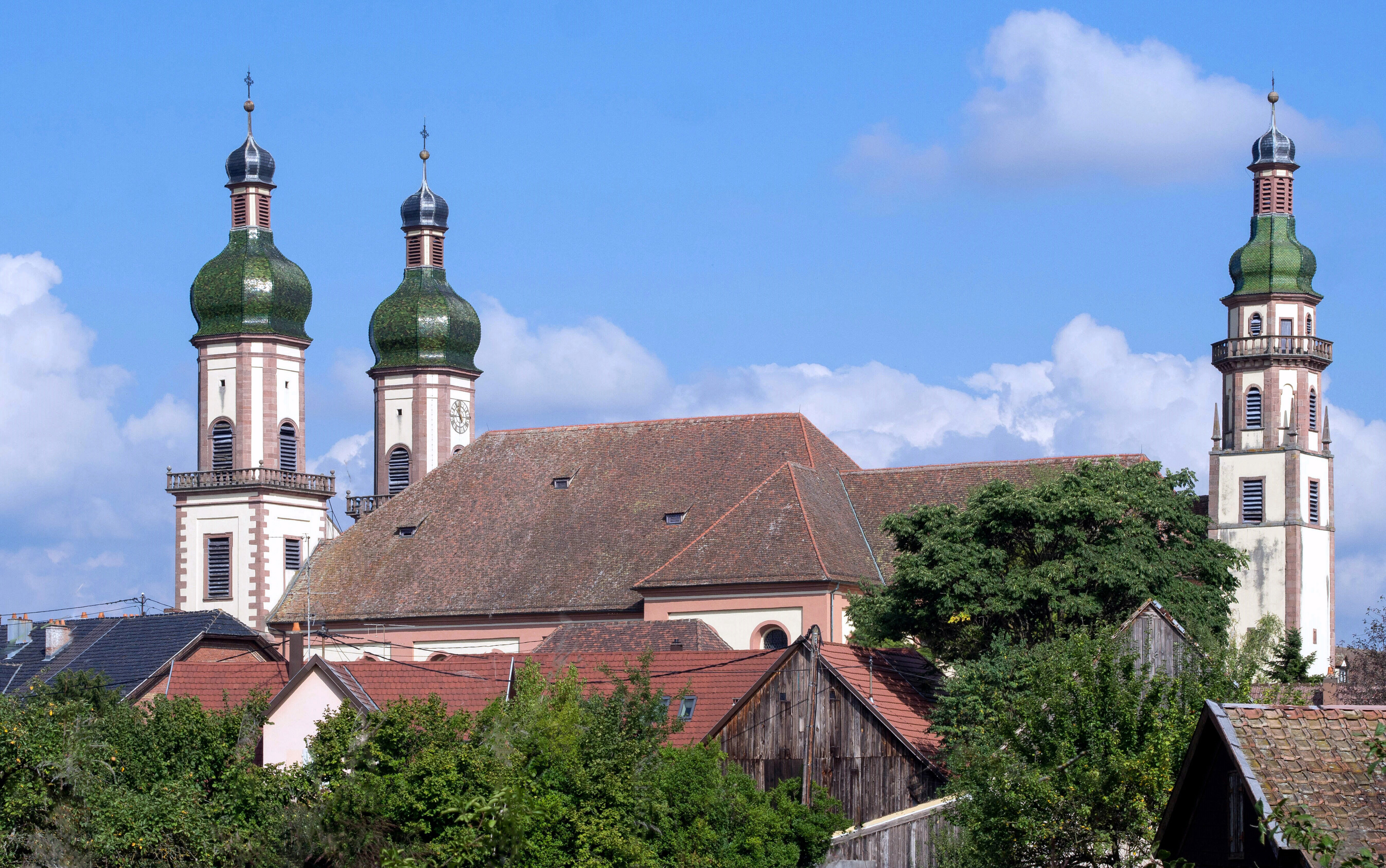 Abbey Church, Ebersmunster